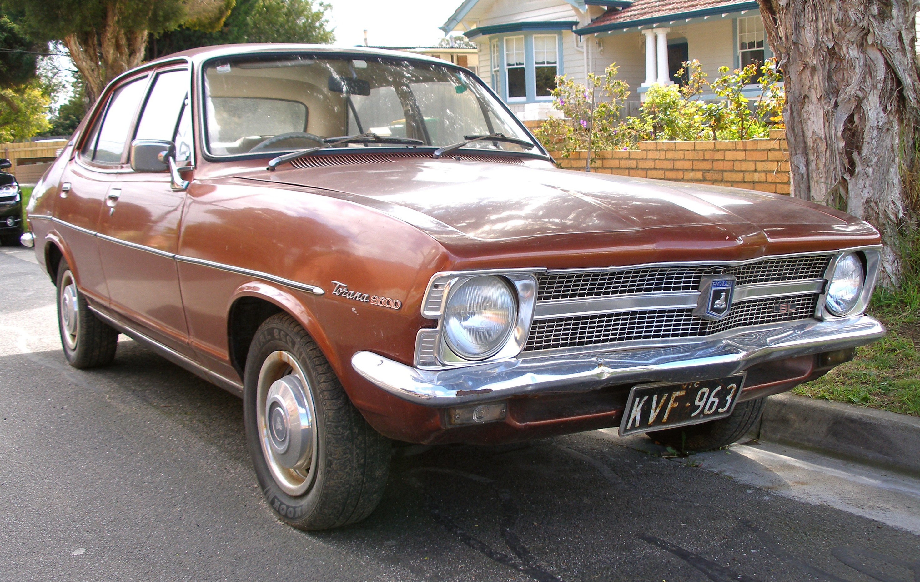 1971 Holden LC Torana sedan, photographed in Victoria, Australia.